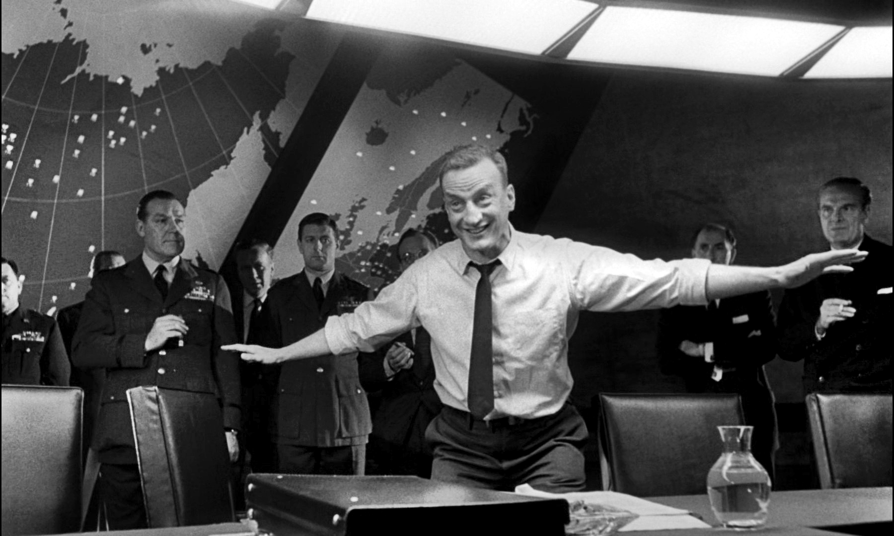 General Buck Turgidson (George C. Scott) demonstrating a B-52 flying low enough to fry chickens in a barnyard.